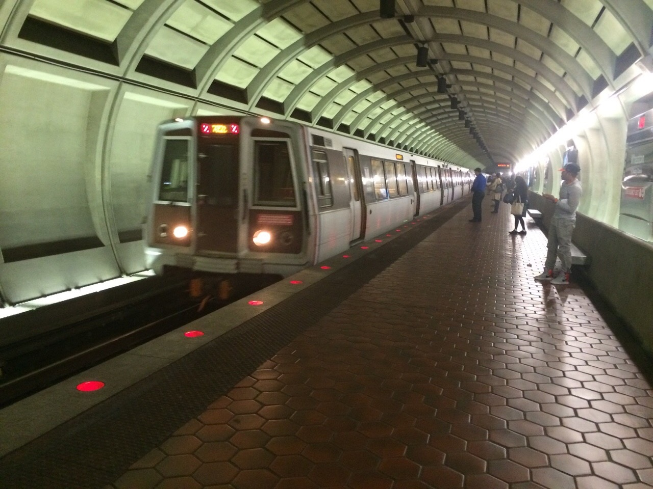 Wheaton is a Washington Metro station in Montgomery County, Maryland (USA) on the Red Line. This is the platform and a train. Thanks to E's lens.